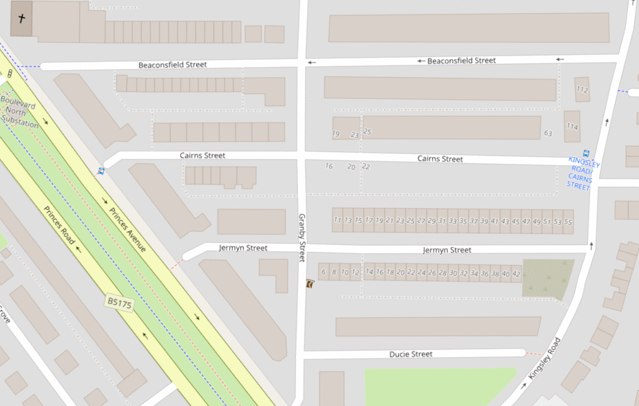 OpenStreetMap showing the Granby Four Streets region in Toxteth, Liverpool This map may be incomplete, and may contain errors. Don't rely solely on it for navigation.